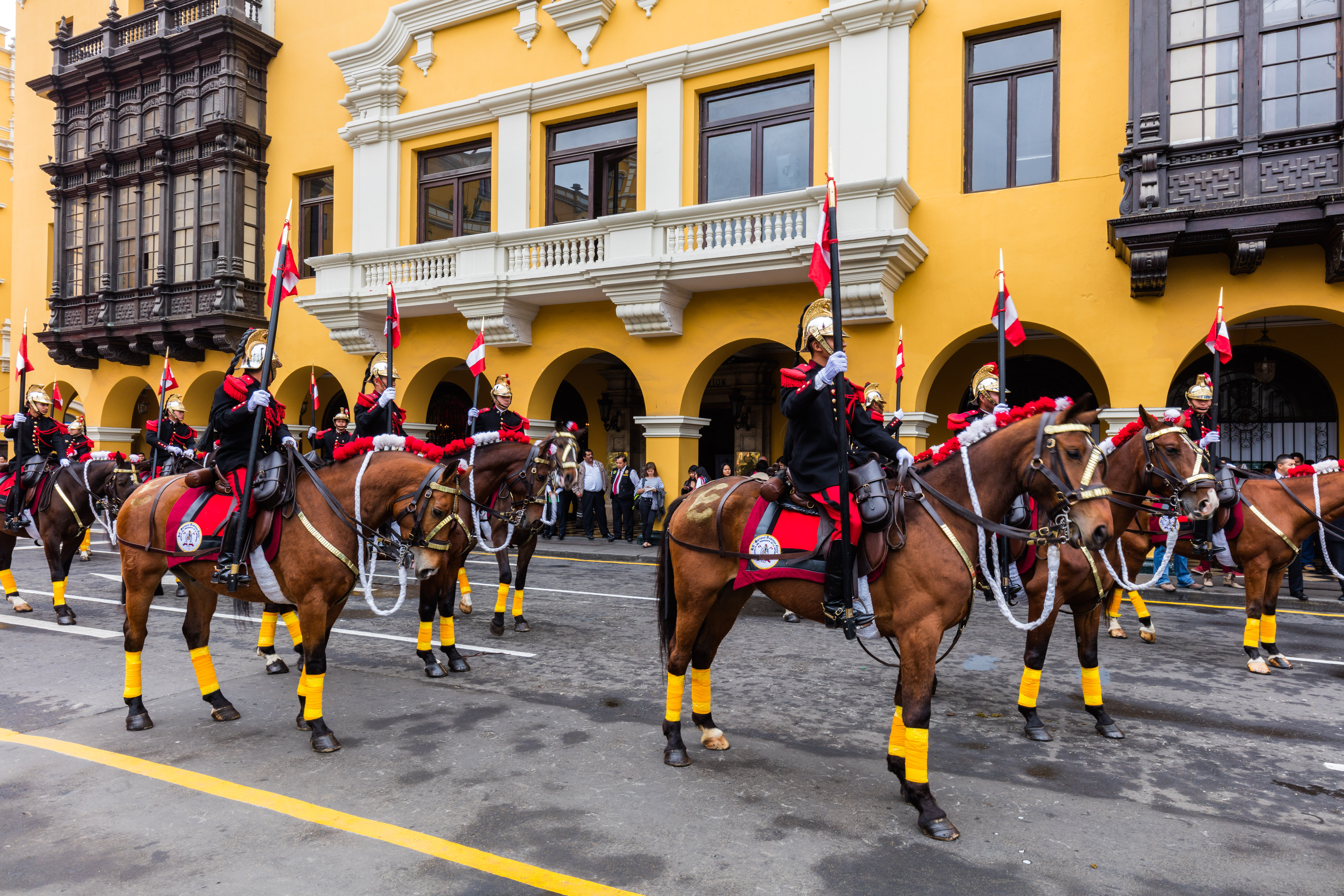 Presidential guard, Plaza de Armas, Lima, Peru